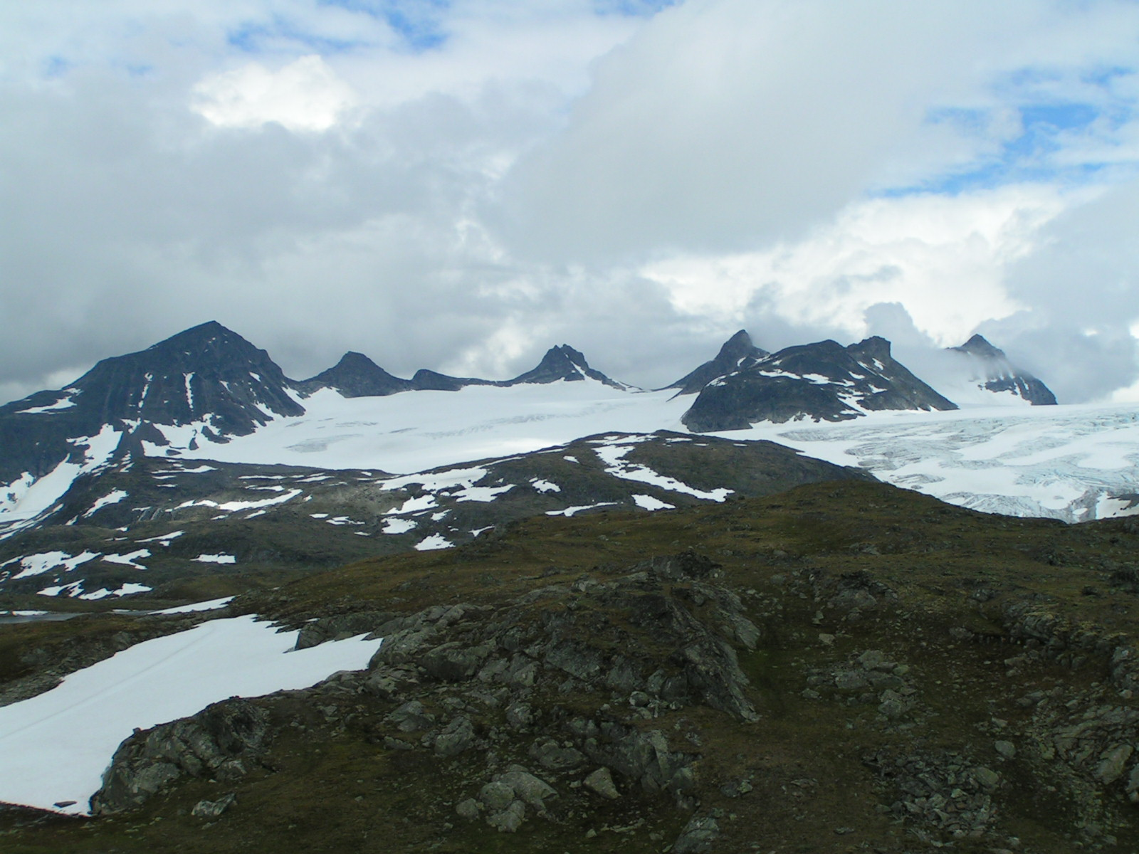 The Smørstabbtindan range in Lom municipality in Oppland county in Norway. The peaks are, from left to right Store Smørstabbtinden (2208 m) Kniven (2133 m) (Nameless) (2077 m) (the smallest/lowest peak) Sokse (2189 m) (peak has two small peaks) Skeie (2118 m) (sharp/pointy) Kalven (2034 m) (actually a ridge with a visible lower peak (1995 m) closer to the observer) Storebjørn (2222 m) (sharp/pointy) The glacier in the middle is Leirbrean and the one to the right is Smørstabbrean. The photo is taken from a place close the main road Riksvei 55 on the mountain area Sognefjellet, in the direction east-south-east.